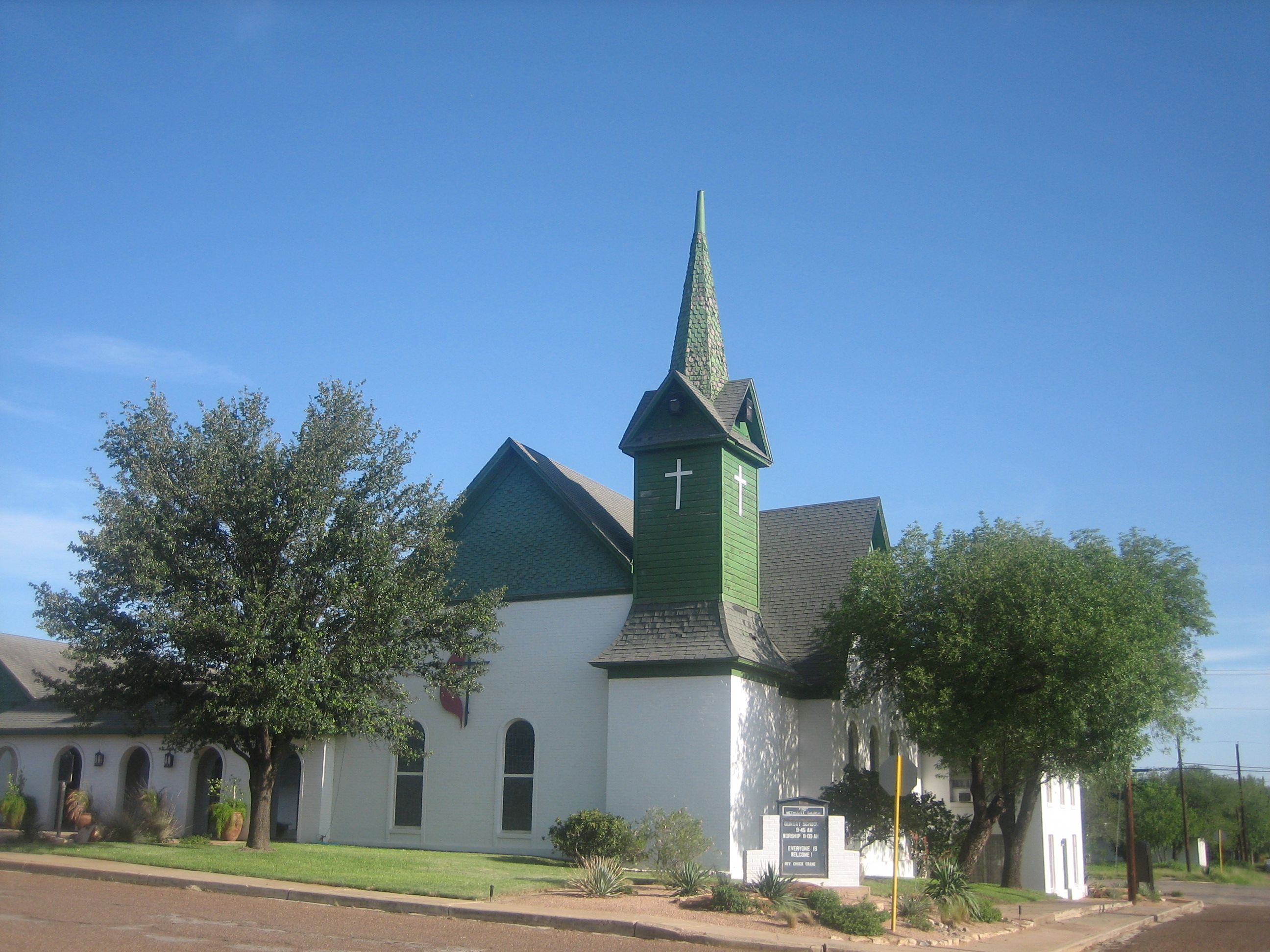 I took photo on May 19, 2009.Billy Hathorn (talk) 04:07, 30 May 2009 (UTC)